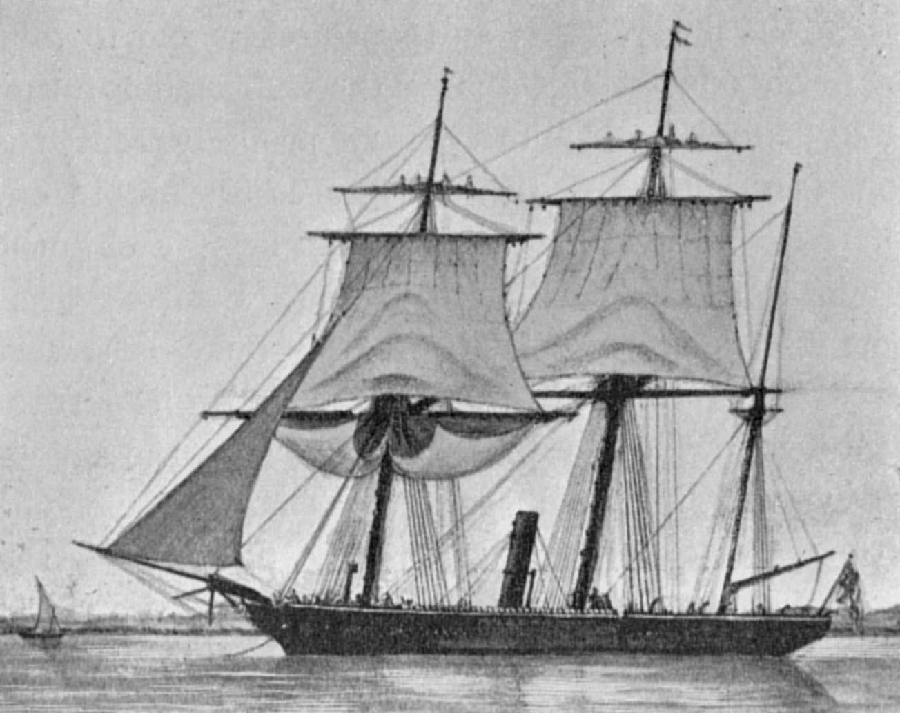 Gunboat HMS Surprise (1856). Commanded august 1864-April 1866 by George Tryon.